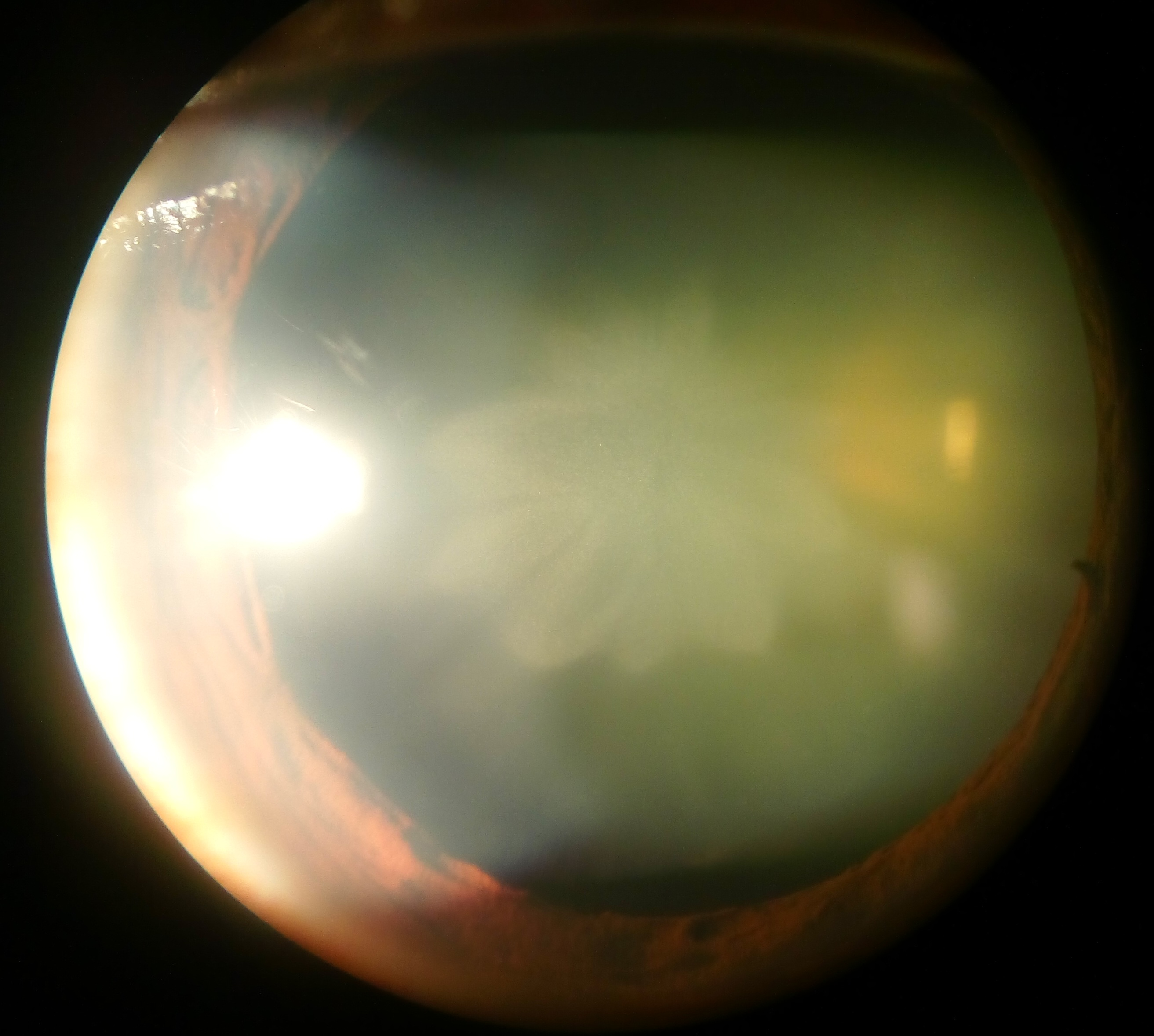 Post traumatic rosette cataract of a 60 years old male